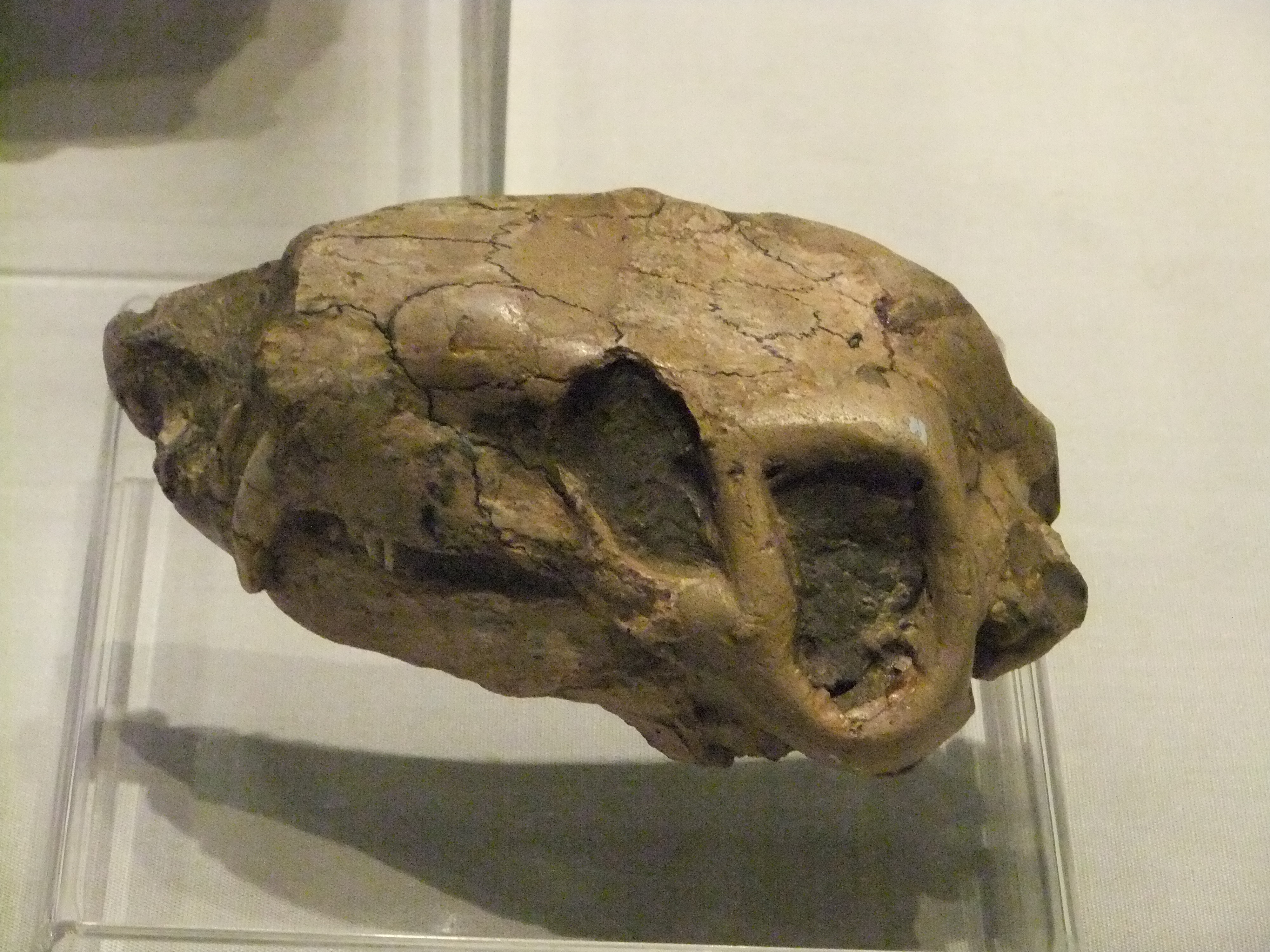 Ictidosuchoides intermedium skull, Wrexham Museum, Wales.